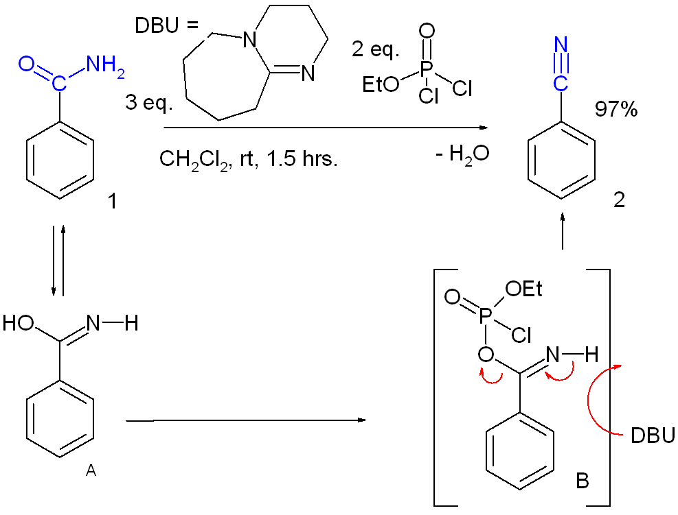 Amidedehydration